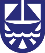 COA of Bolungarvik